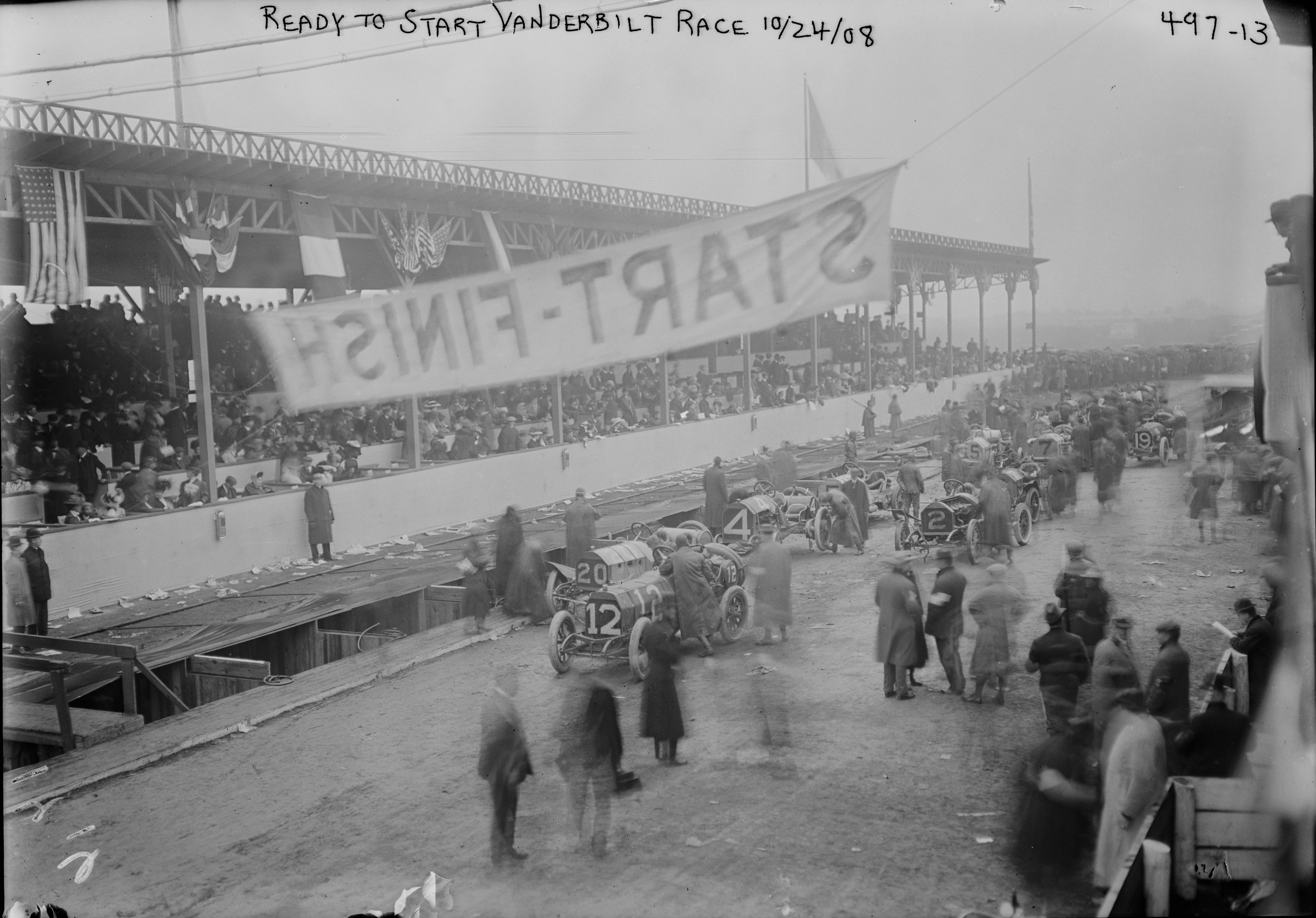 Vanderbilt Cup Auto Race, cars and crowd on track before beginning of race.